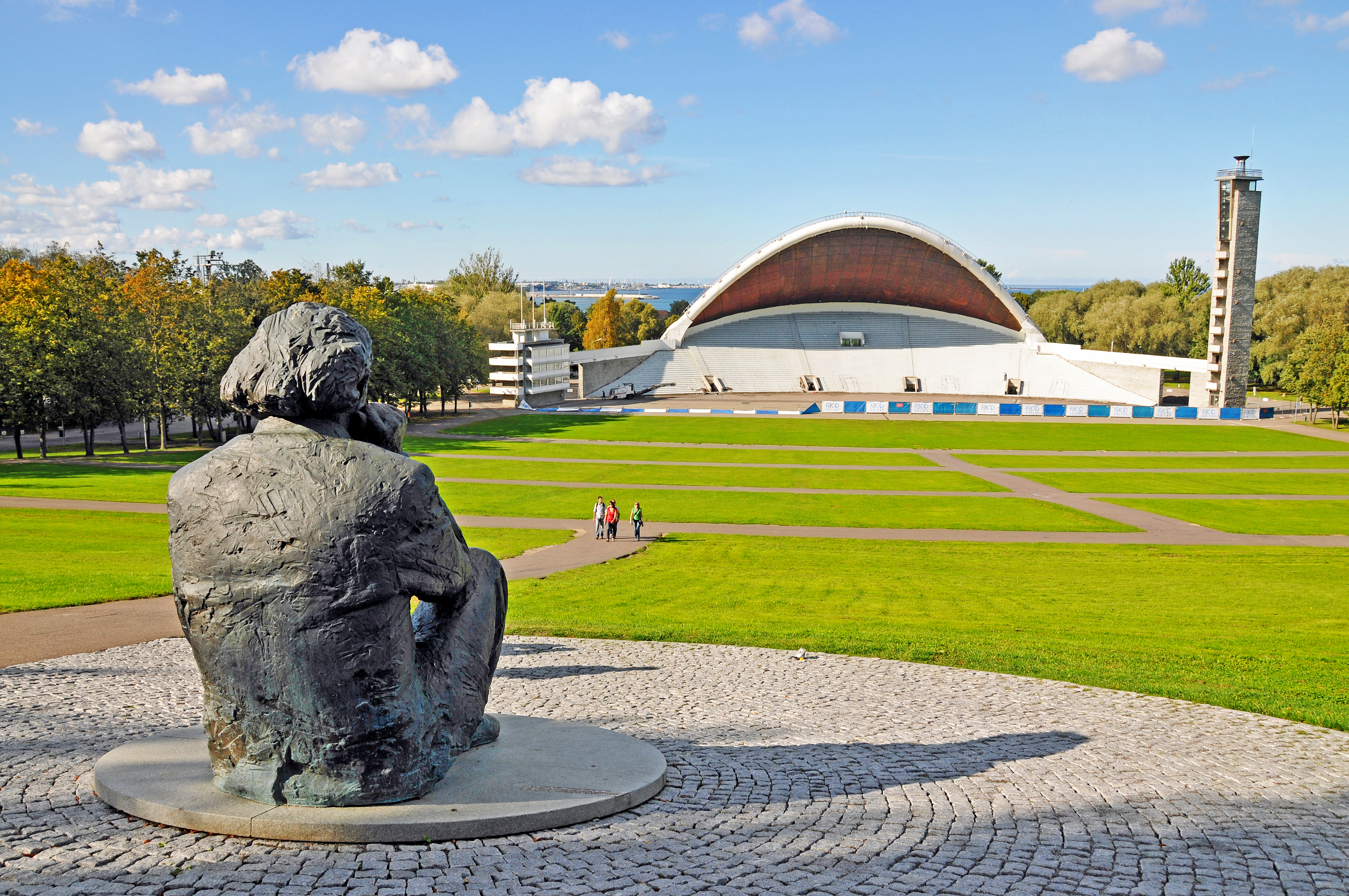 Tallinn Song Festival Grounds